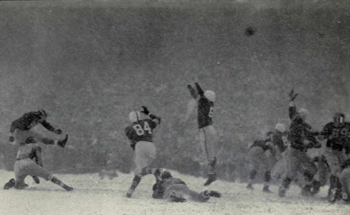 Photograph of Harry Allis extra point in Snow Bowl This work is in the public domain because it was published in the United States between 1923 and 1963 and although there may or may not have been a copyright notice, the copyright was not renewed. Unless its author has been dead for the required period, it is copyrighted in the countries or areas that do not apply the rule of the shorter term for US works, such as Canada (50 pma), Mainland China (50 pma, not Hong Kong or Macao), Germany (70 pma), Mexico (100 pma), Switzerland (70 pma), and other countries with individual treaties. See Commons:Hirtle chart for further explanation. This work is in the public domain in the United States because it was published in the United States between 1923 and 1977 without a copyright notice. See Commons:Hirtle chart for further explanation. Note that it may still be copyrighted in jurisdictions that do not apply the rule of the shorter term for US works (depending on the date of the author's death), such as Canada (50 p.m.a.), Mainland China (50 p.m.a., not Hong Kong or Macao), Germany (70 p.m.a.), Mexico (100 p.m.a.), Switzerland (70 p.m.a.), and other countries with individual treaties.